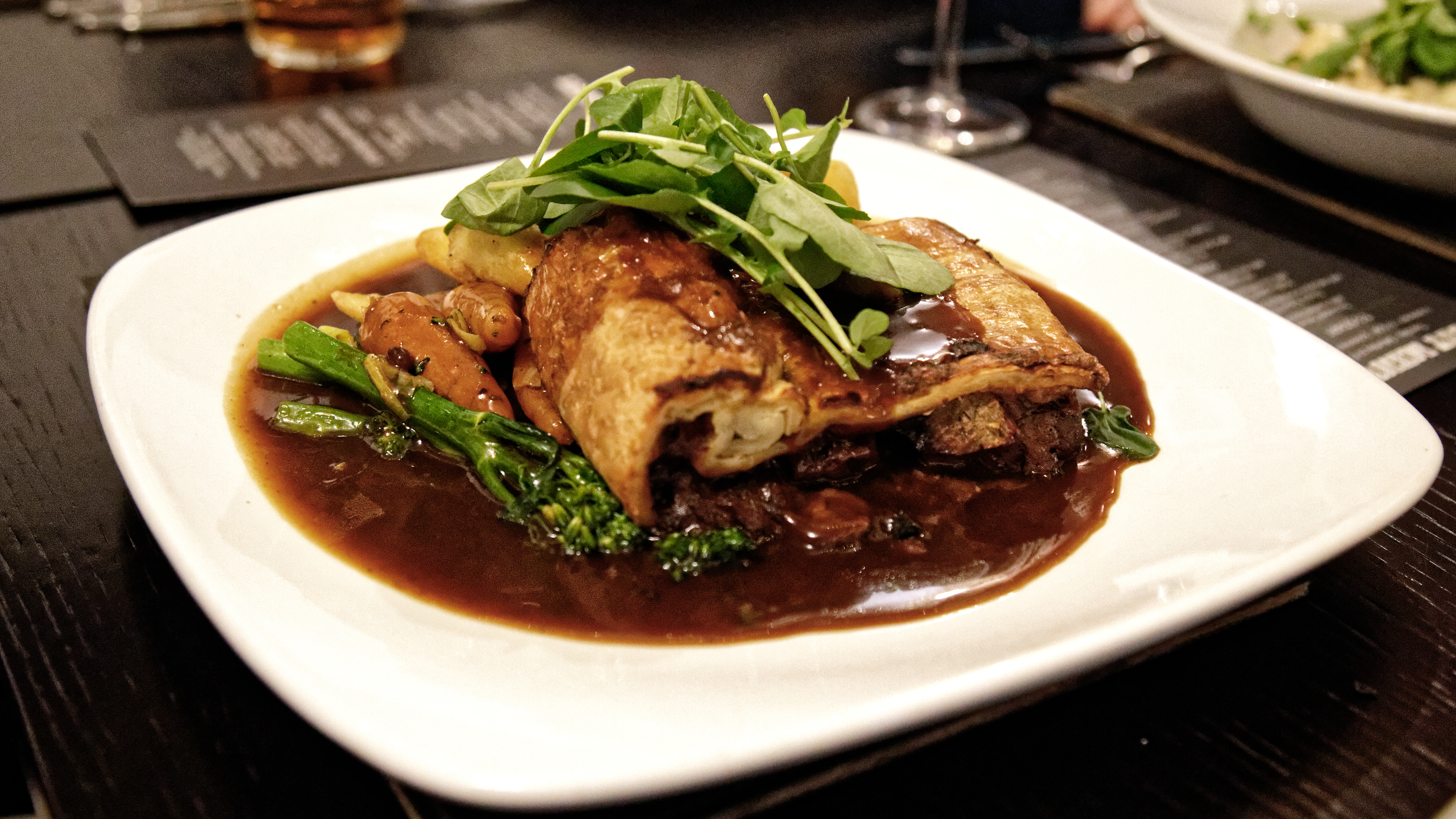 A steak and kidney pie with long stem broccoli, carrot, chips and gravy, topped with cress, at the White Hart Inn, in Moreton Essex, England.Mobile device view: Wikimedia (at this time) makes it difficult to immediately view photo groups related to this image. To see its most relevant allied photos, click on White Hart Inn, and this uploader's food and drink photos: here. You can add a beta click-through 'categories' button to the very bottom of photo-pages you view by going to settings... three-bar icon top left.Desktop view: Wikimedia (at this time) makes it difficult to immediately view the helpful category links where you can find images related to this one in a variety of ways; for these go to the very bottom of the page.This image is one of a series of date and/or subject allied consecutive photographs kept in progression or location by file name number and/or time marking.Camera: Canon EOS 6D Mark II with Canon EF 24-105mm F4L IS USM lens. Software: file lens-corrected and optimized with DxO ProLab Elite and Viewpoint 3, and further optimized with Adobe Photoshop CS2.